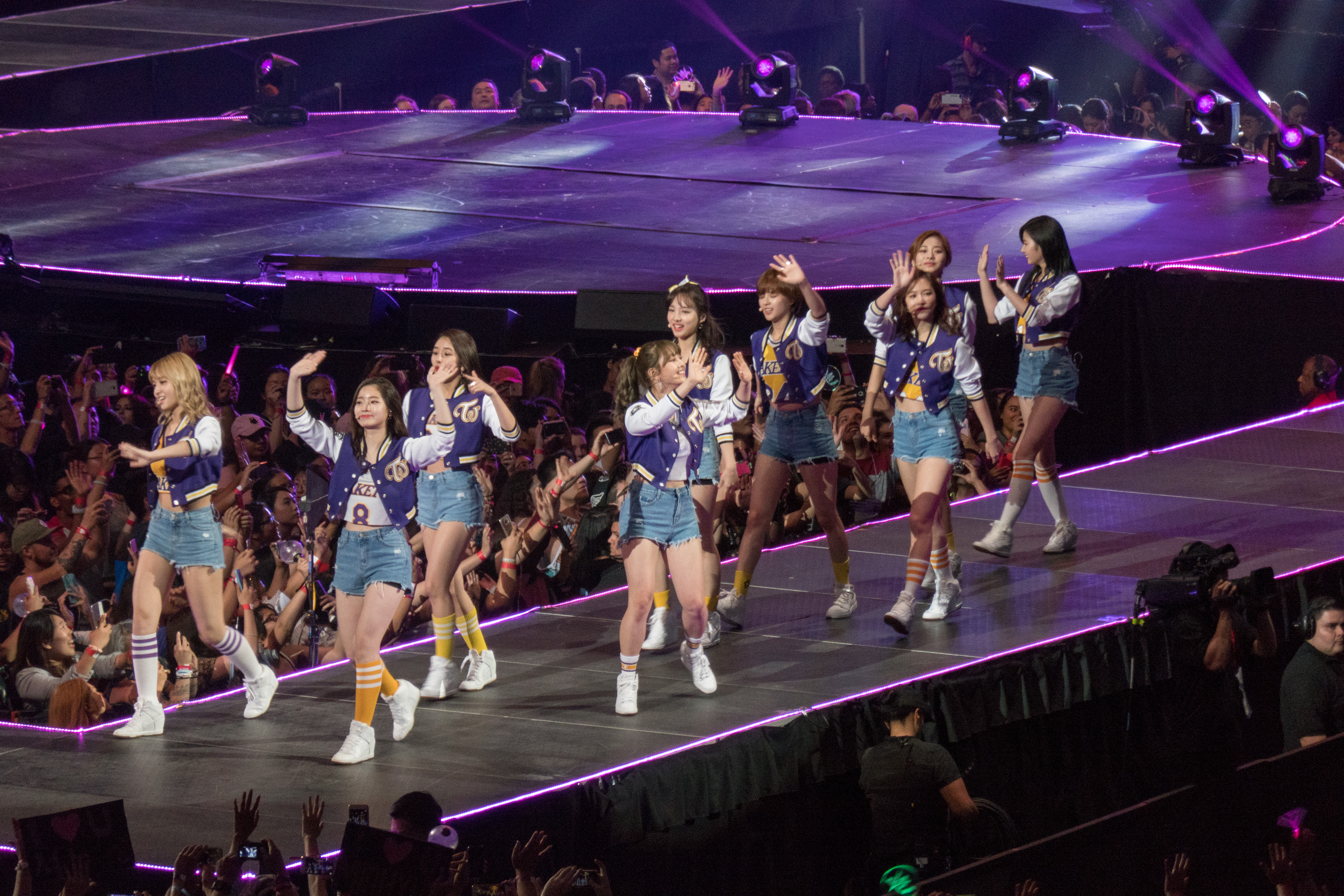 Twice (트와이스) live at KCON16 LA